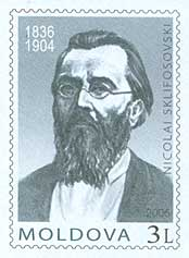 Stamp of Moldova